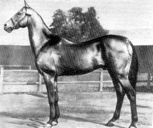 The famous Akhal-Teke stallion Mele Koush born in Russia in 1909.